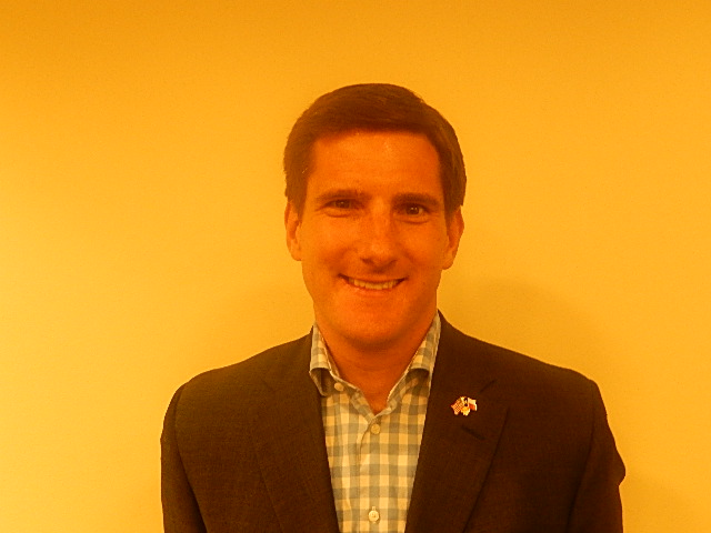 I took photo of state Rep.-elect Brooks Landgraf in Midland, TX, with Nikon camera.